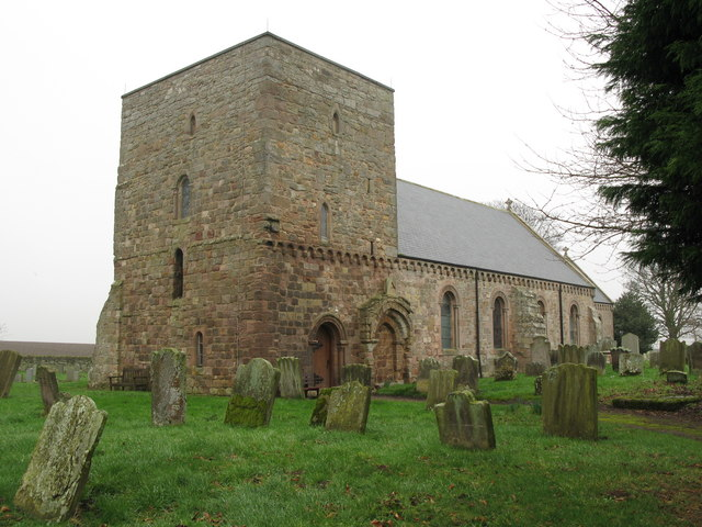 St Anne's, Ancroft Originally built as a chapel in the Norman period, a fortified three-storied tower was added to the west end of the nave of St Anne's in the late 13th century, blocking the 12th century doorway. The church was restored in 1836 and again in 1870, when the nave was extended to the east and the chancel rebuilt. The tower was restored in 1886.